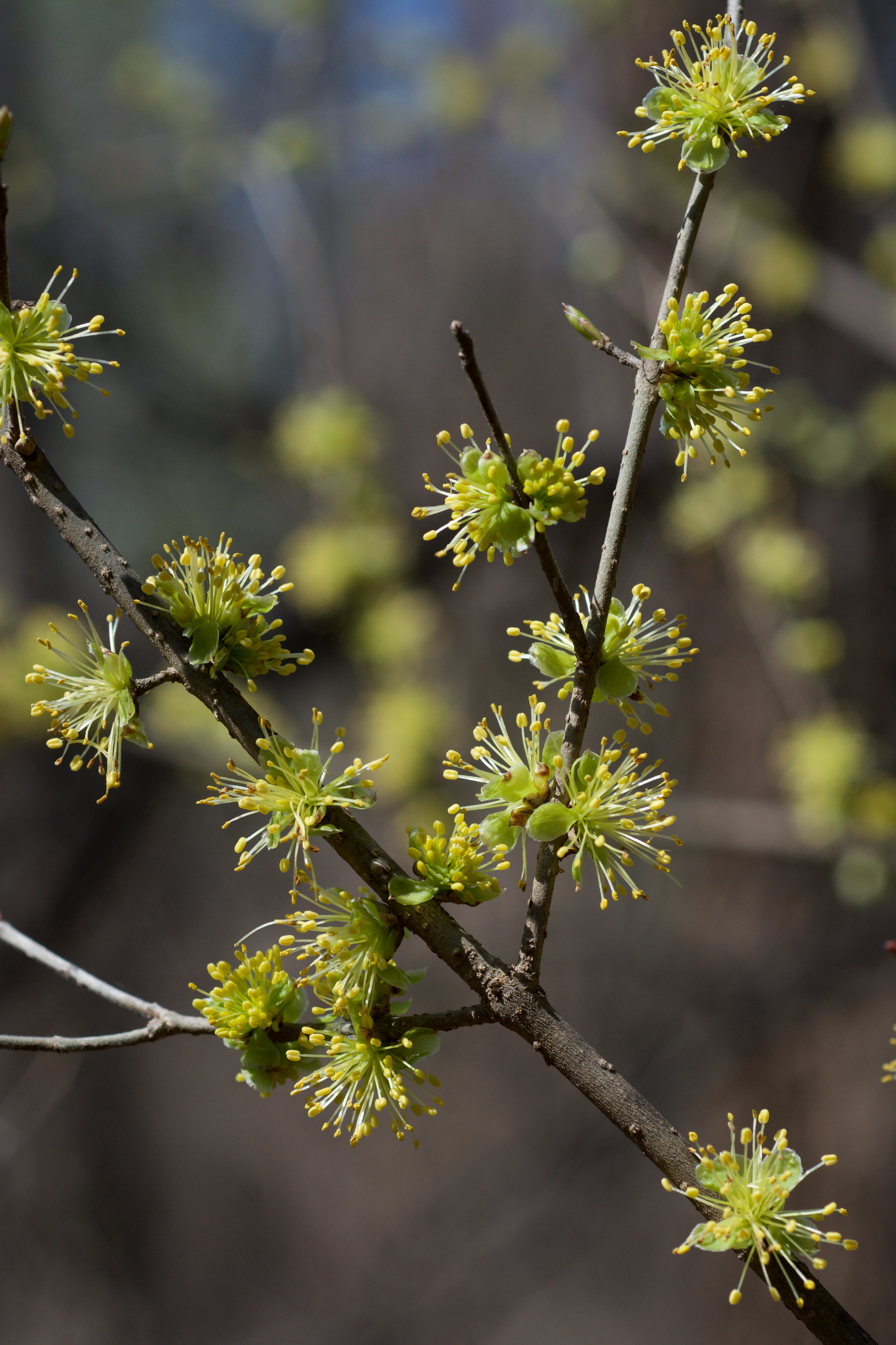 Species from south-central North America Common name: Eastern Swamp Privet Photographed in Burns Park, North Little Rock, Arkansas